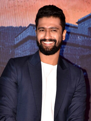 Vicky Kaushal at an event for Raazi.